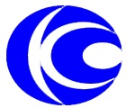 Kawachi Ibaraki chapter